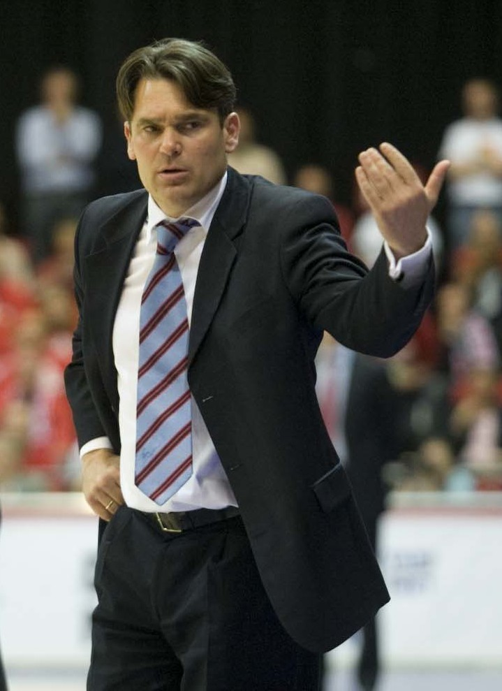 Marco van den Berg coaching GasTerra Flames in 2010.